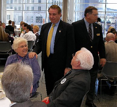 Former Wisconsin Gov. Tommy Thompson, a Republican, in Des Moines to speak at a Iowa Realtors Association meeting on Feb. 20, 2007.